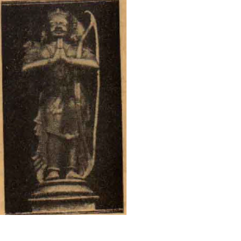 కన్నప్ప